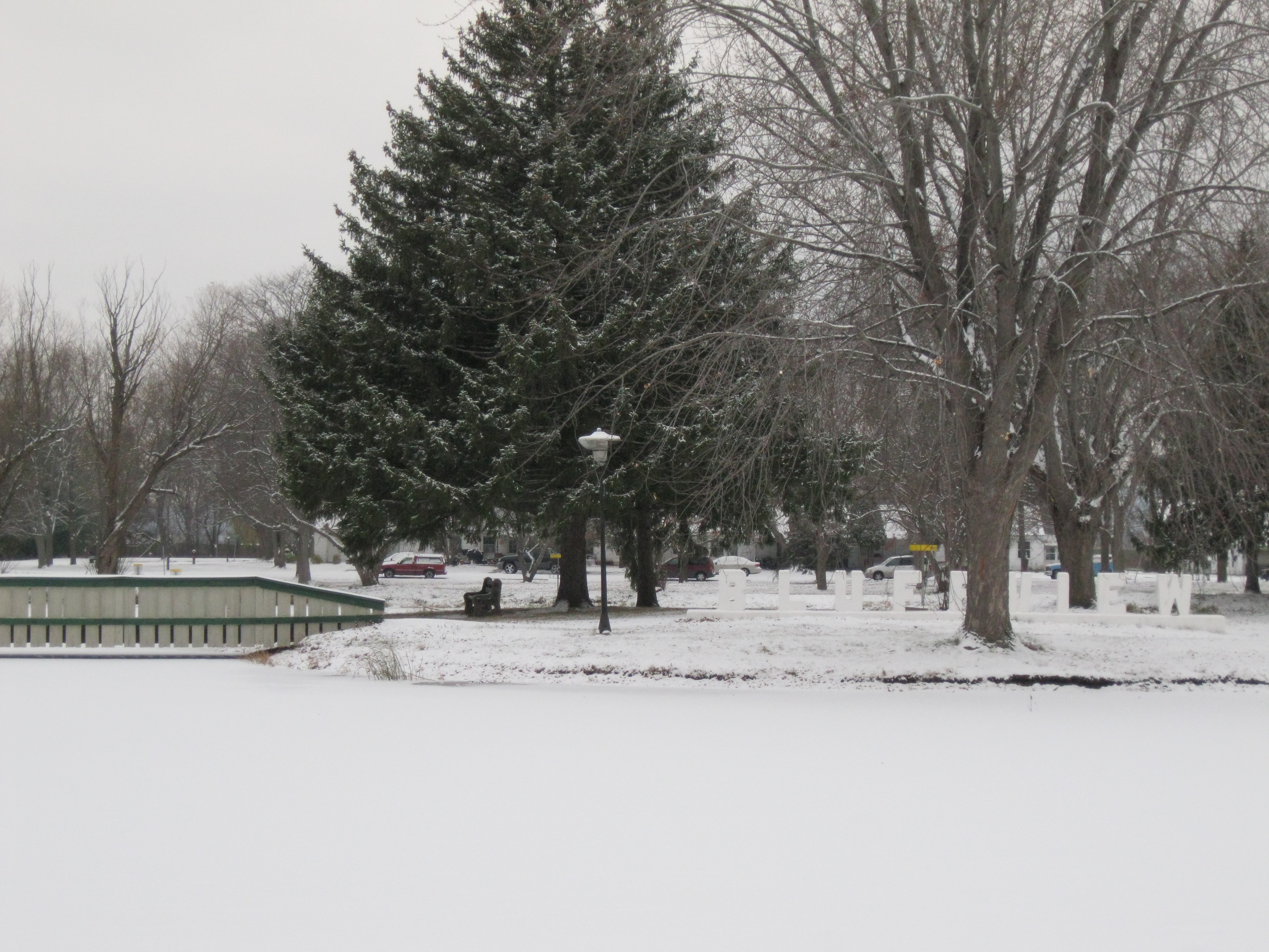 Park in Bluffview, Wisconsin. The white letters on the right spell out "Bluffview".